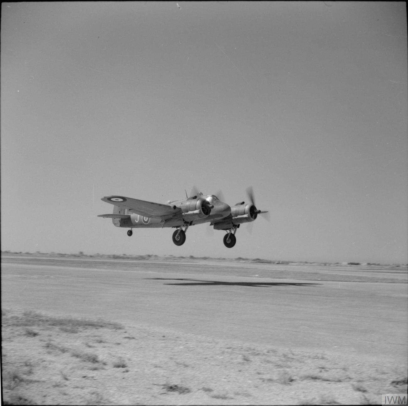 Bristol Beaufighter Mark VIC, X8035 'J', of No. 235 Squadron RAF Detachment, taking off from Luqa, Malta, during the Italian naval attack on the "Harpoon" Convoy.